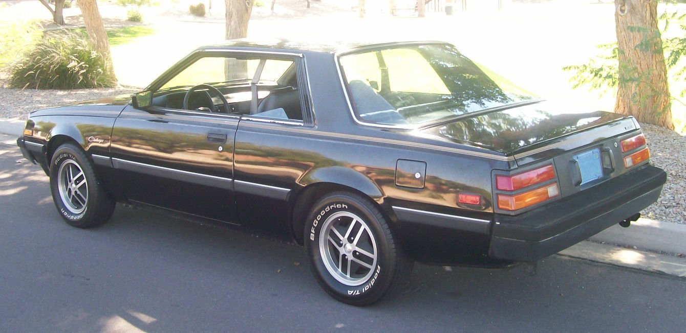 Original example of the second generation of the Mitsubishi Galant based Dodge Challenger.